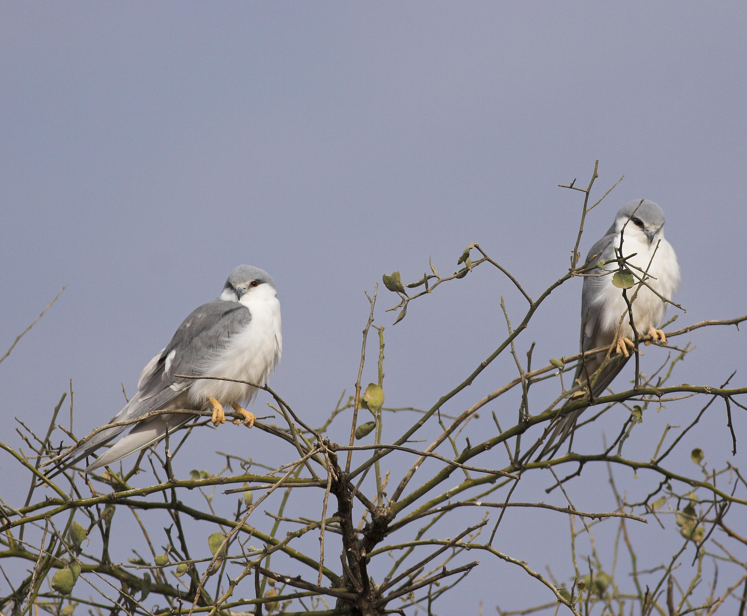 Scissor-tailed Kite Chelictinia riocourii pair, Ethiopia.